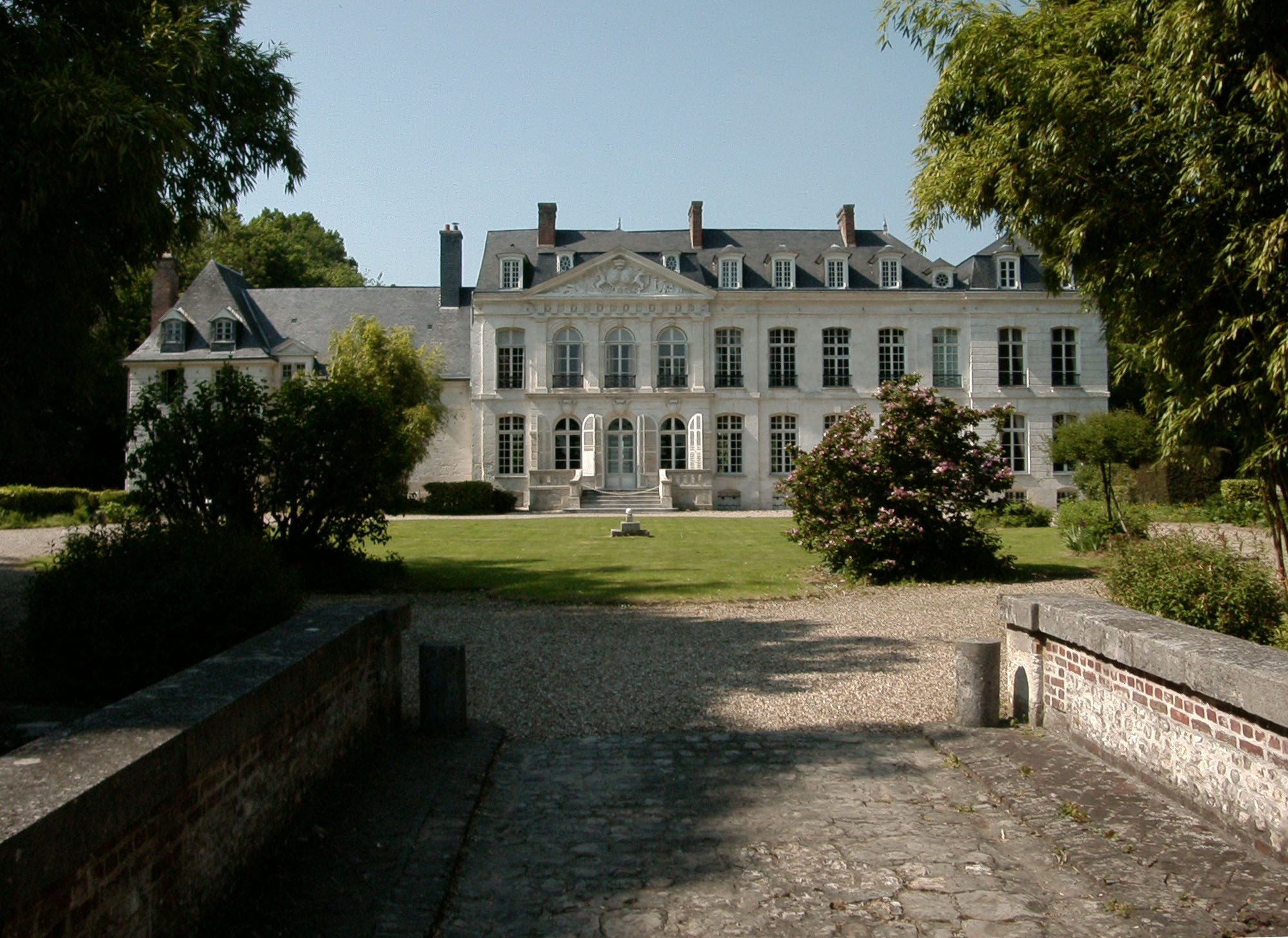 castle of Filières in Normandy